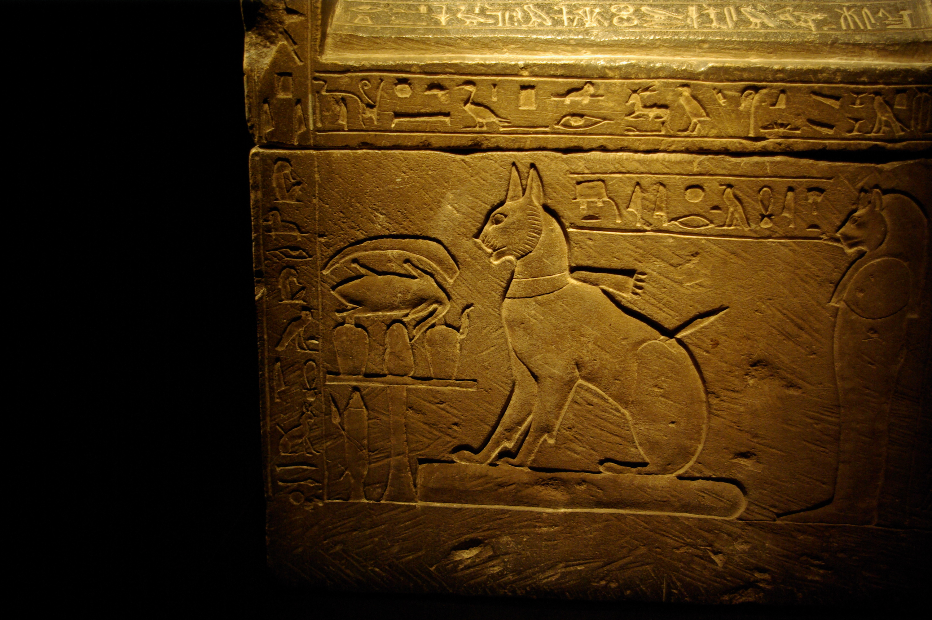 The sarcophagus of the cat of the Crown Prince Thutmose, the eldest son of Amenhotep III and Queen Tiye. He was designated as pharaoh Amenhotep III's successor but predeceased his father. His younger brother, Akhenaten, assumed the throne instead. (Displayed at the visiting "Pharaon, Homme, Roi, Dieu" exhibition in the Museum of Fine Arts of Valenciennes, France in November 2007)